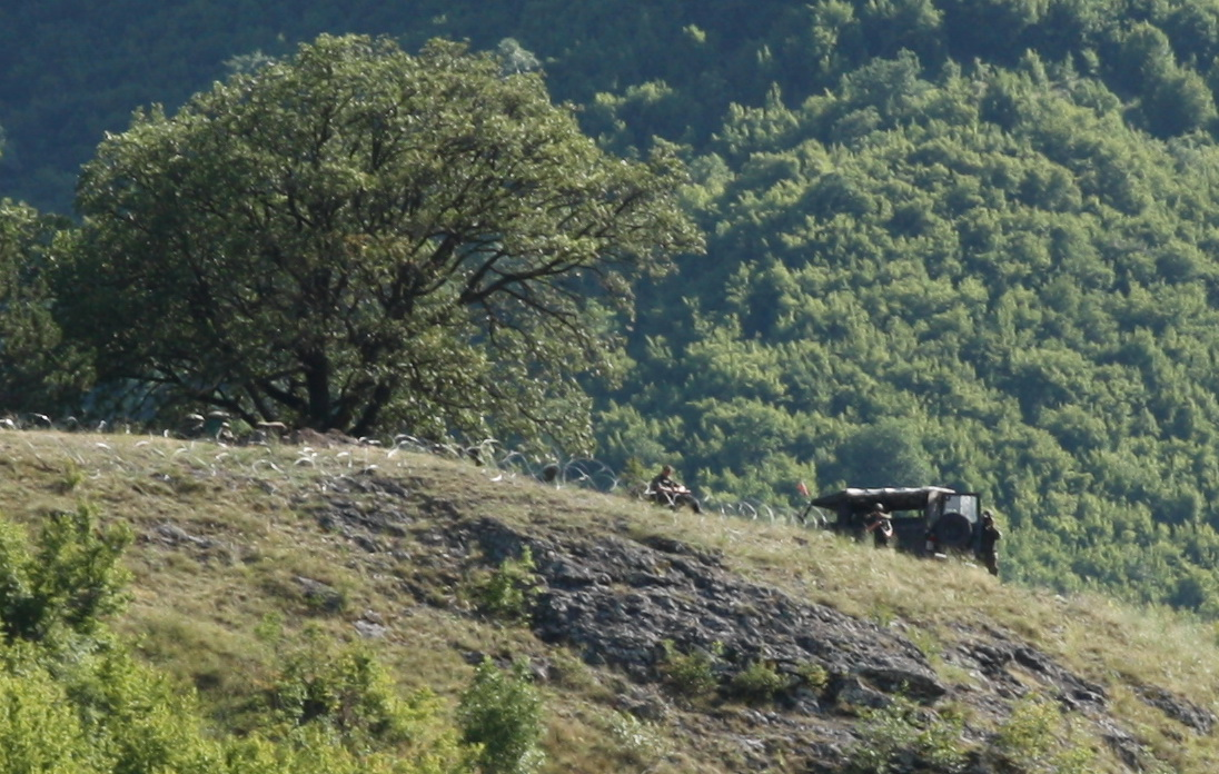 KFOR troops near Jarinje check-point